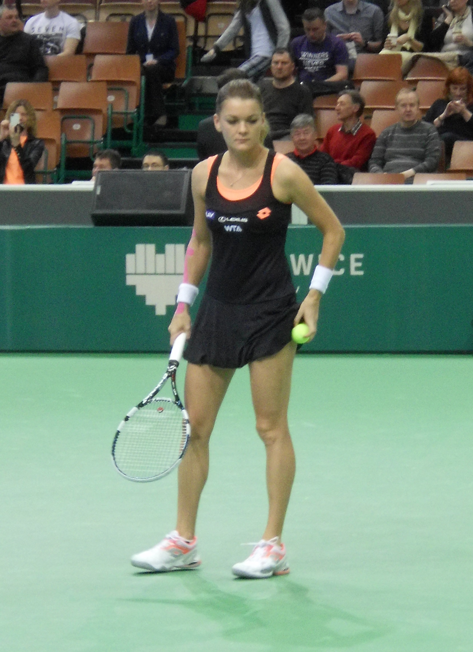 Agnieszka Radwańska during quarterfinal match at BNP Paribas Katowice Open 2014